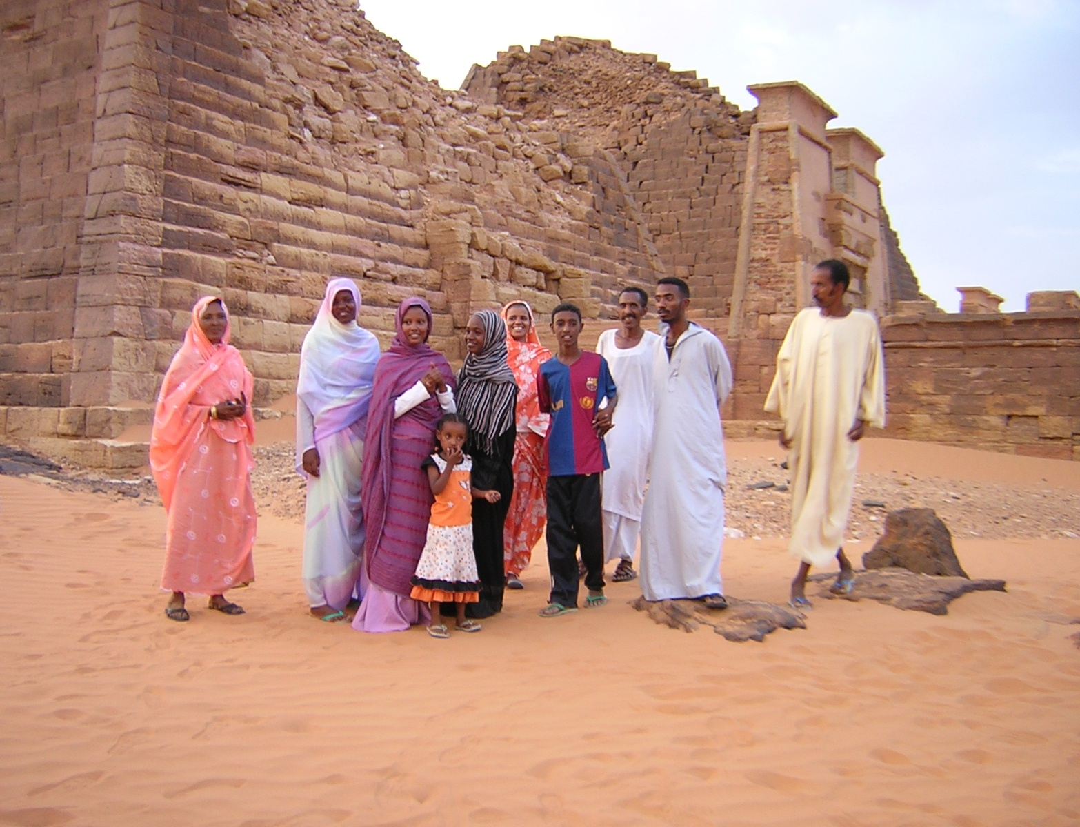 Sudanese tourists at the pyramids of Meroe, Sudan.